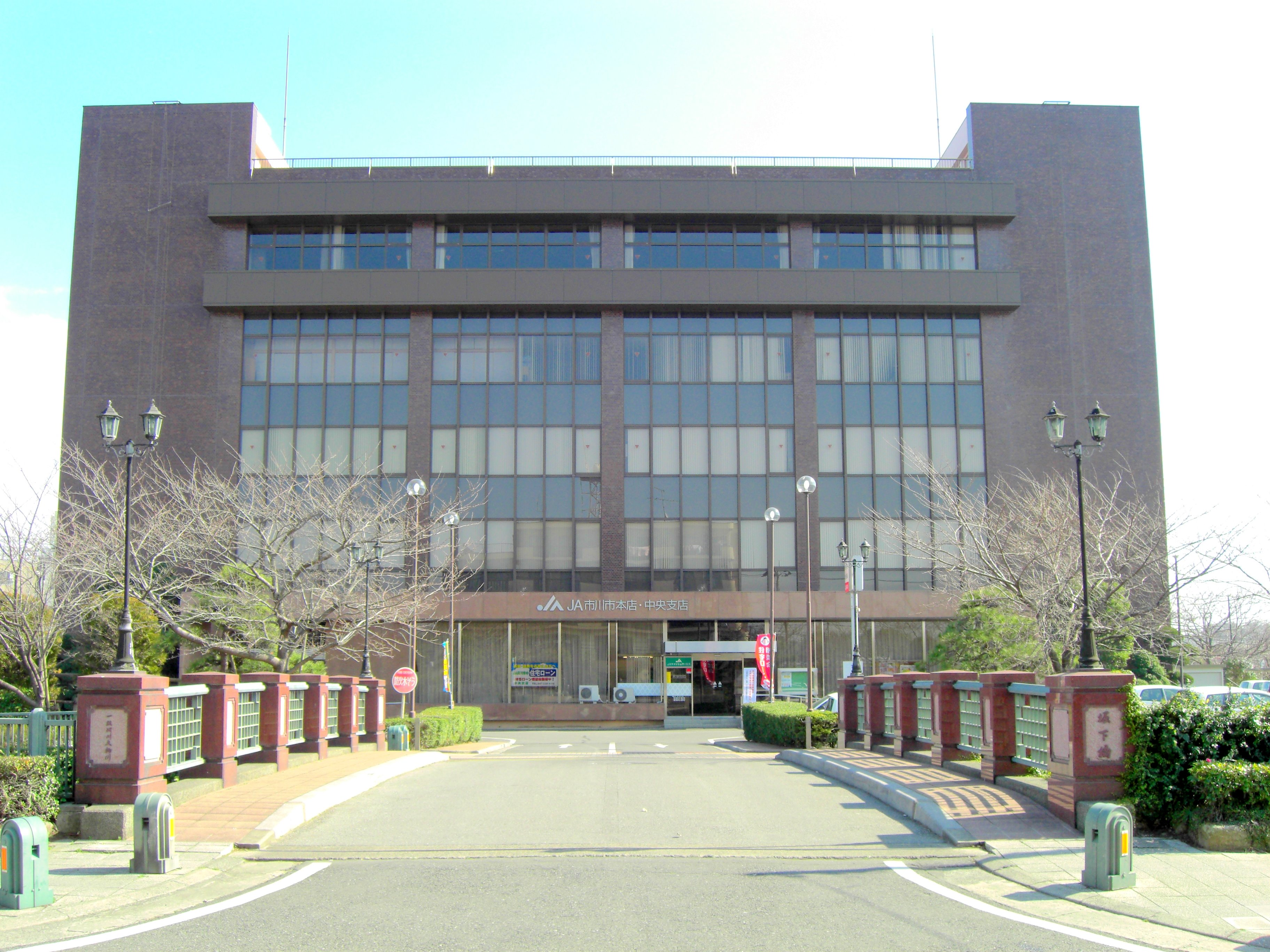 JA(Japan Agricultural Cooperatives) Ichikawashi